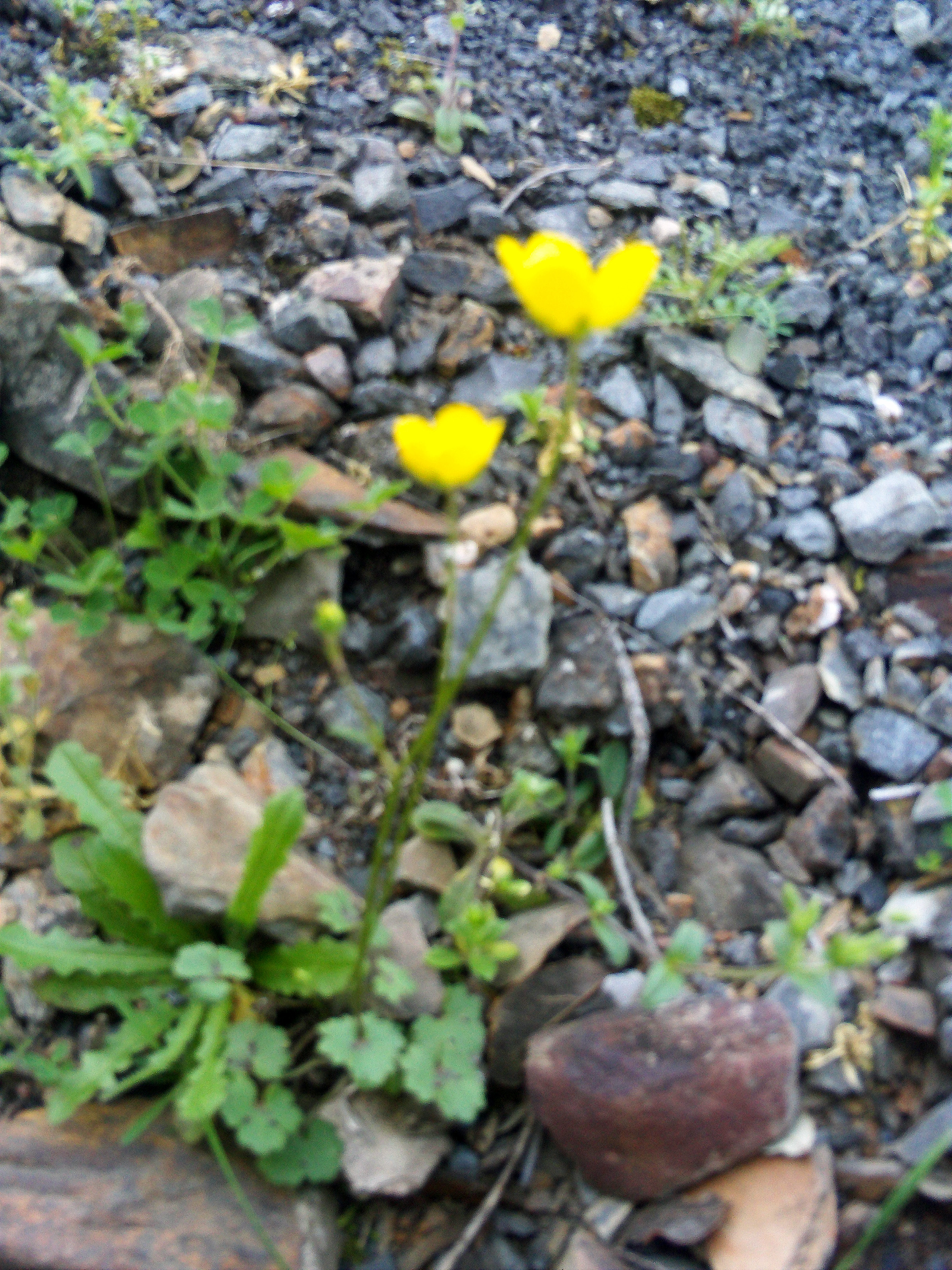 Ranunculus ollissiponensis habit, Sierra Madrona, Spain